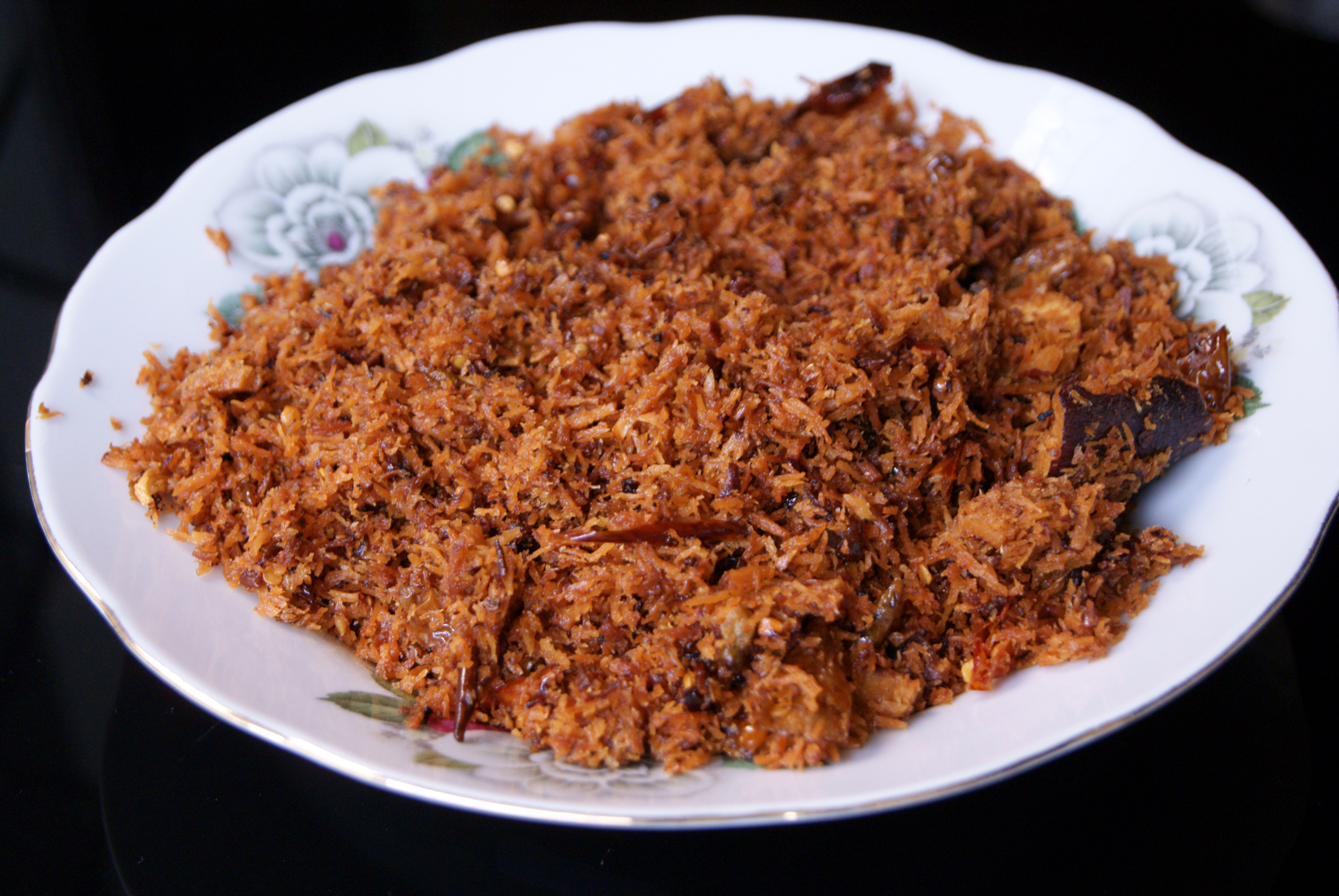 Spicy grated coconuts